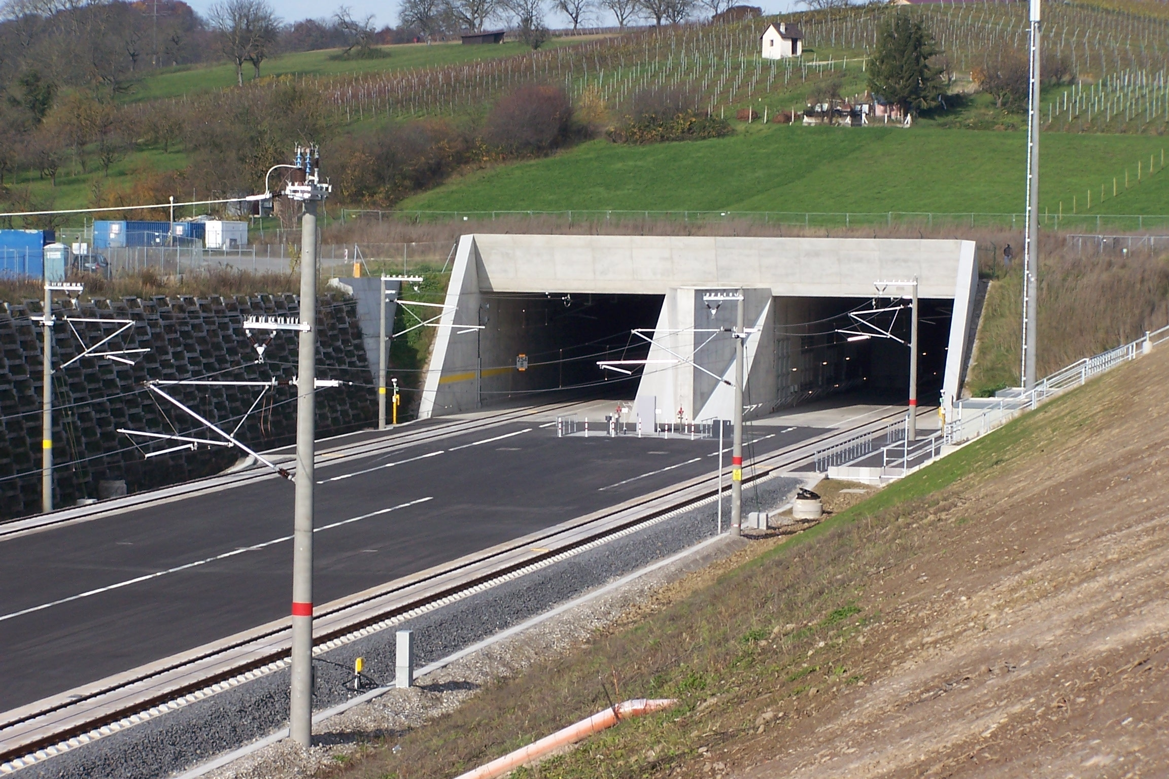 View of the southern portal of the two tubes of the Katzenberg Tunnel from the construction yard